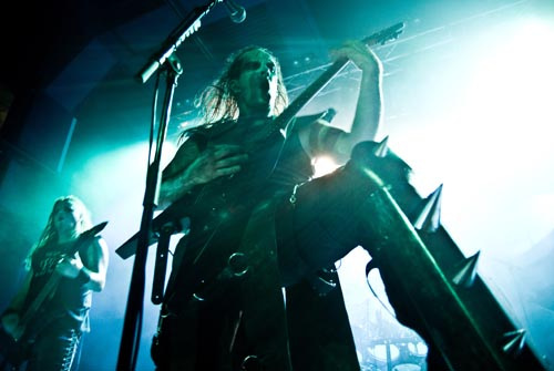 Behemoth, live at Hole In The Sky, Bergen Metal Fest 2008